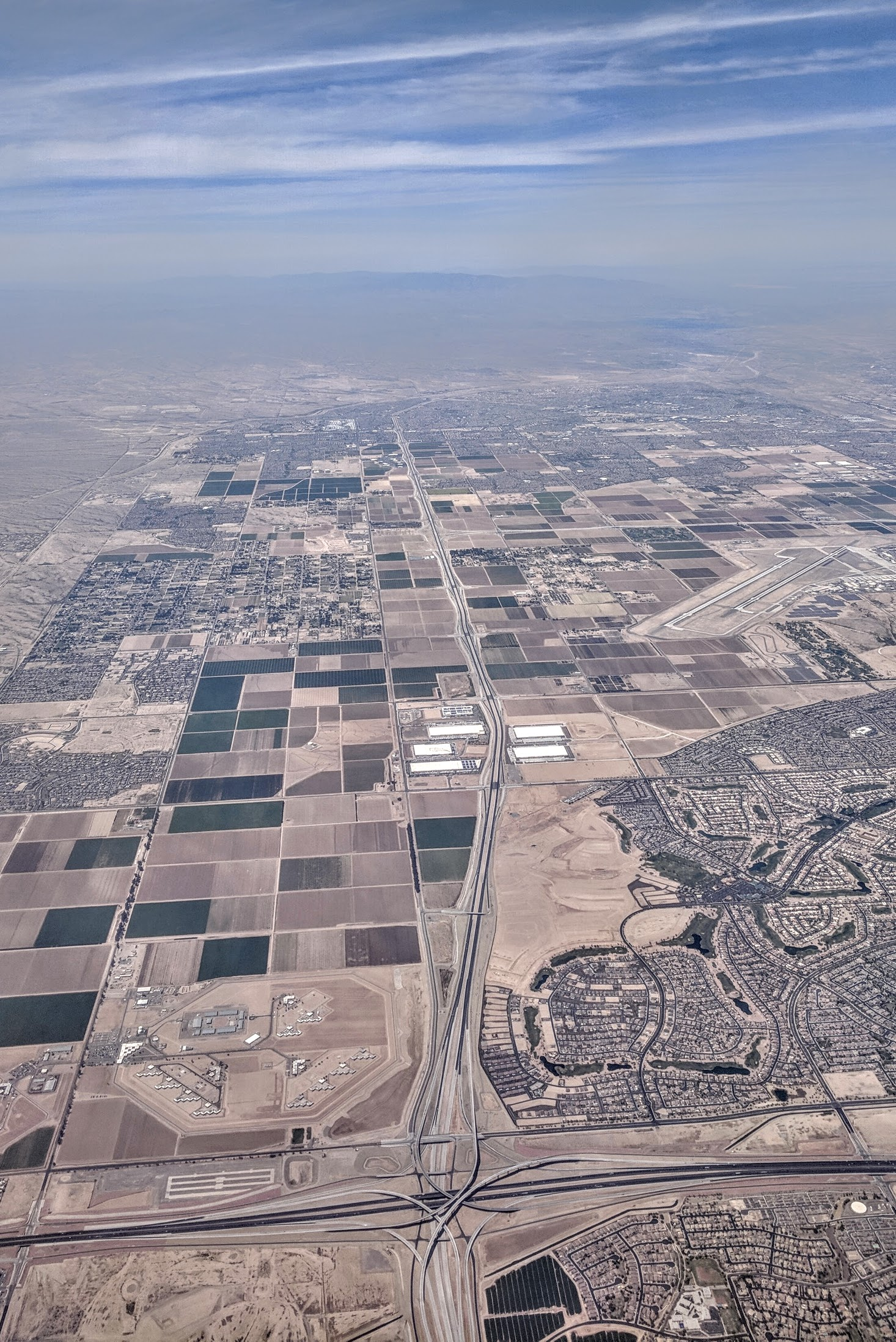 Arizona State Route 303 interchange with Interstate 10 in Goodyear, Arizona, looking north along 303, with Luke Air Force Base in the right background.